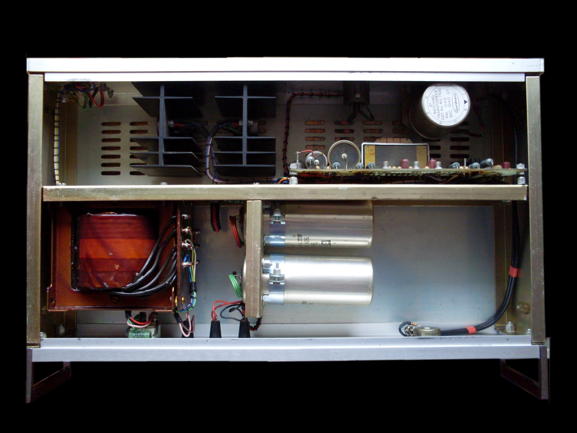 TPA50 Professional Power Amplifier manufactured in the 1970s H-H Electronics (Cambridge, UK). Outer casing removed to show internal components. Note large EI power transformer and electrolytic capacitors. An early example of solid state design for profesional audio use.